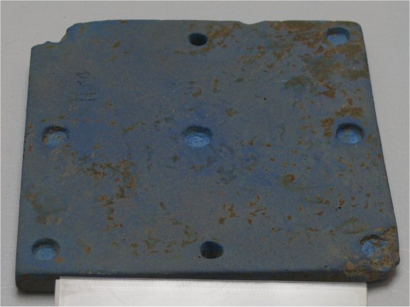 Azur Glazed tile, polychromic decoration of the palaces, persepolis Museum, Iran